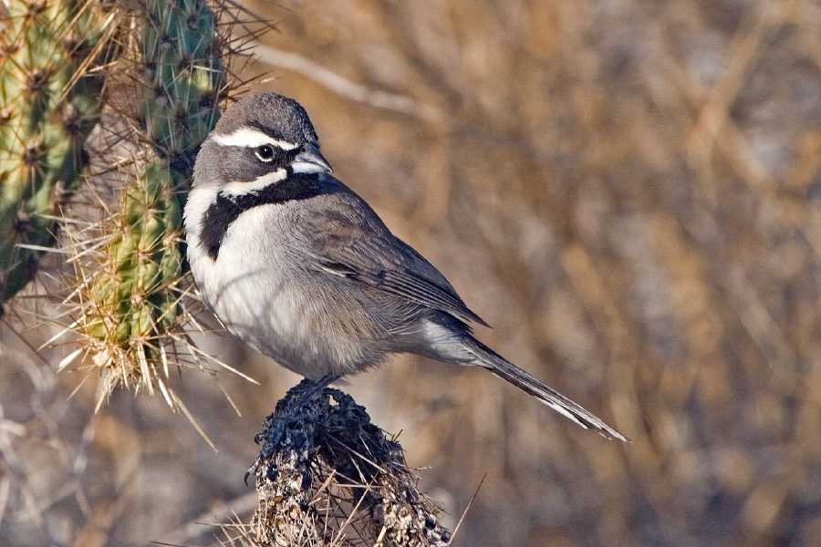 Amphispiza bilineata - Black-Throated Sparrow, Visitor's Center, Anza Borrego Desert State Park, Borrego Springs, California